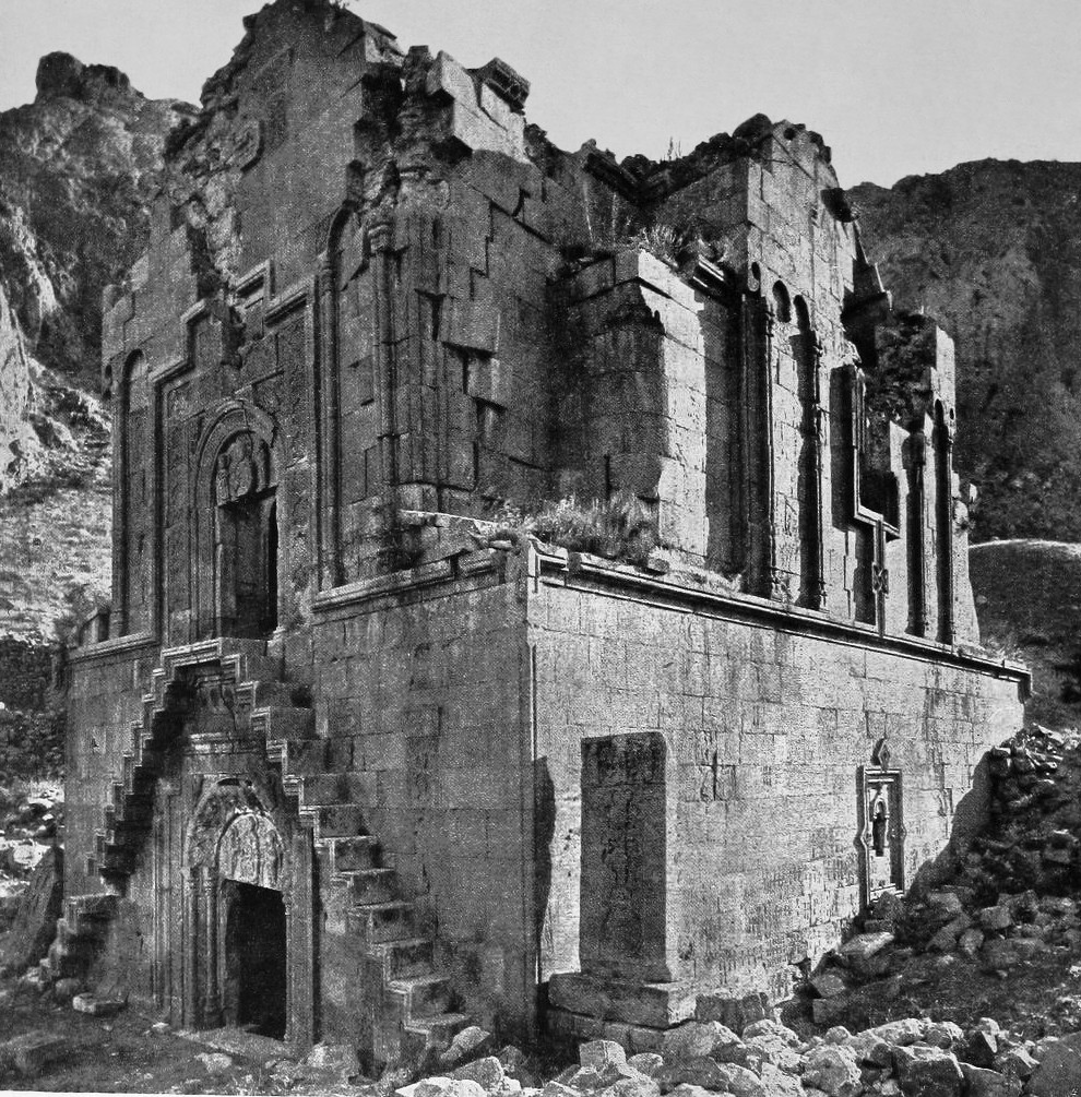 The Armenian monastery of Noravank in the early 20th century